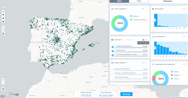 Crossing properties with cadastre database